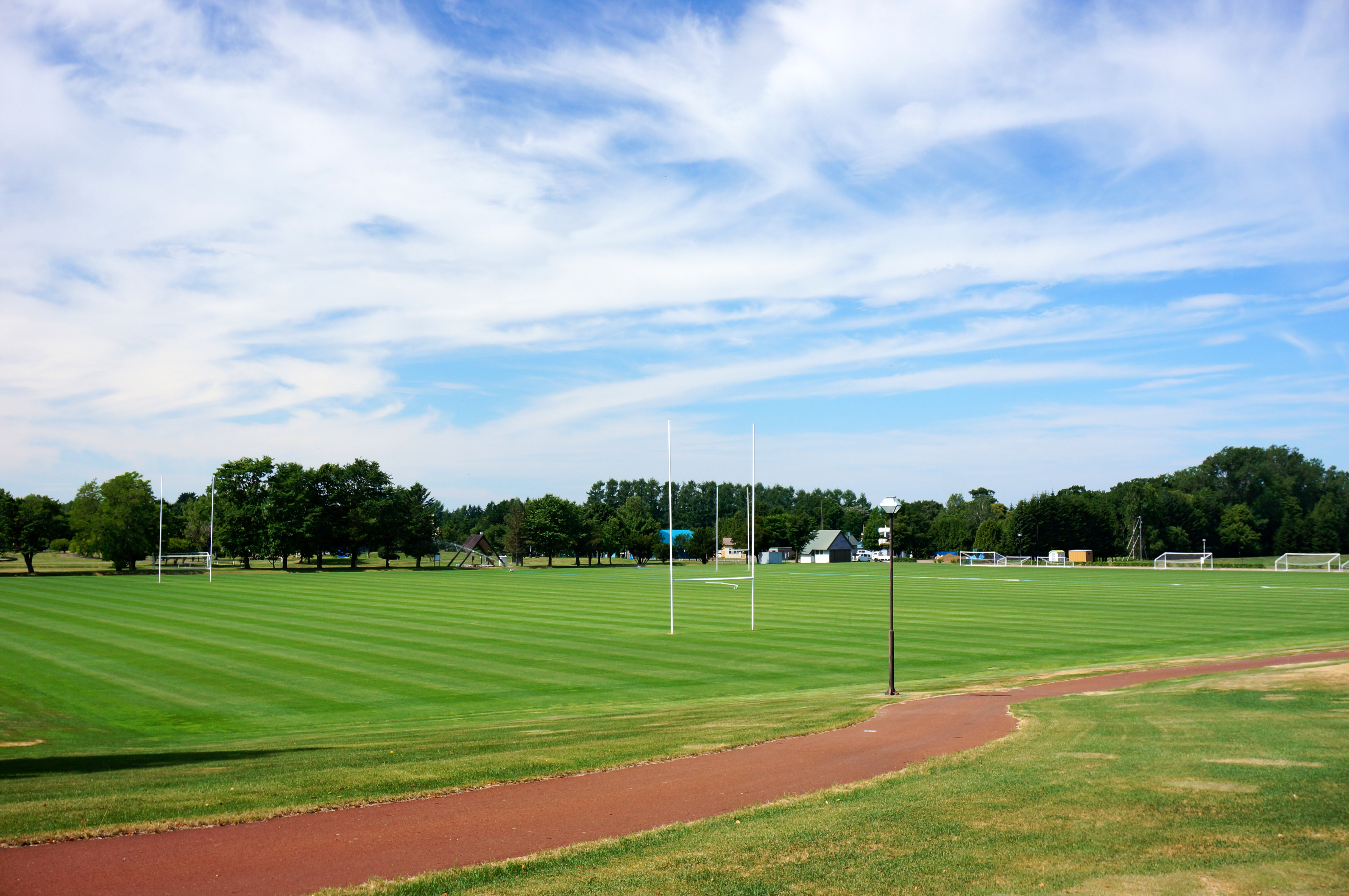 Abashiri_Sports_Training_Field in Abashiri, Hokkaido prefecture, Japan.